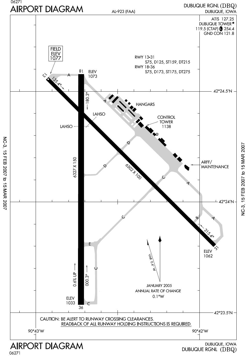 FAA airport diagram for Dubuque Regional Airport (DBQ) in Dubuque, Iowa, United States.